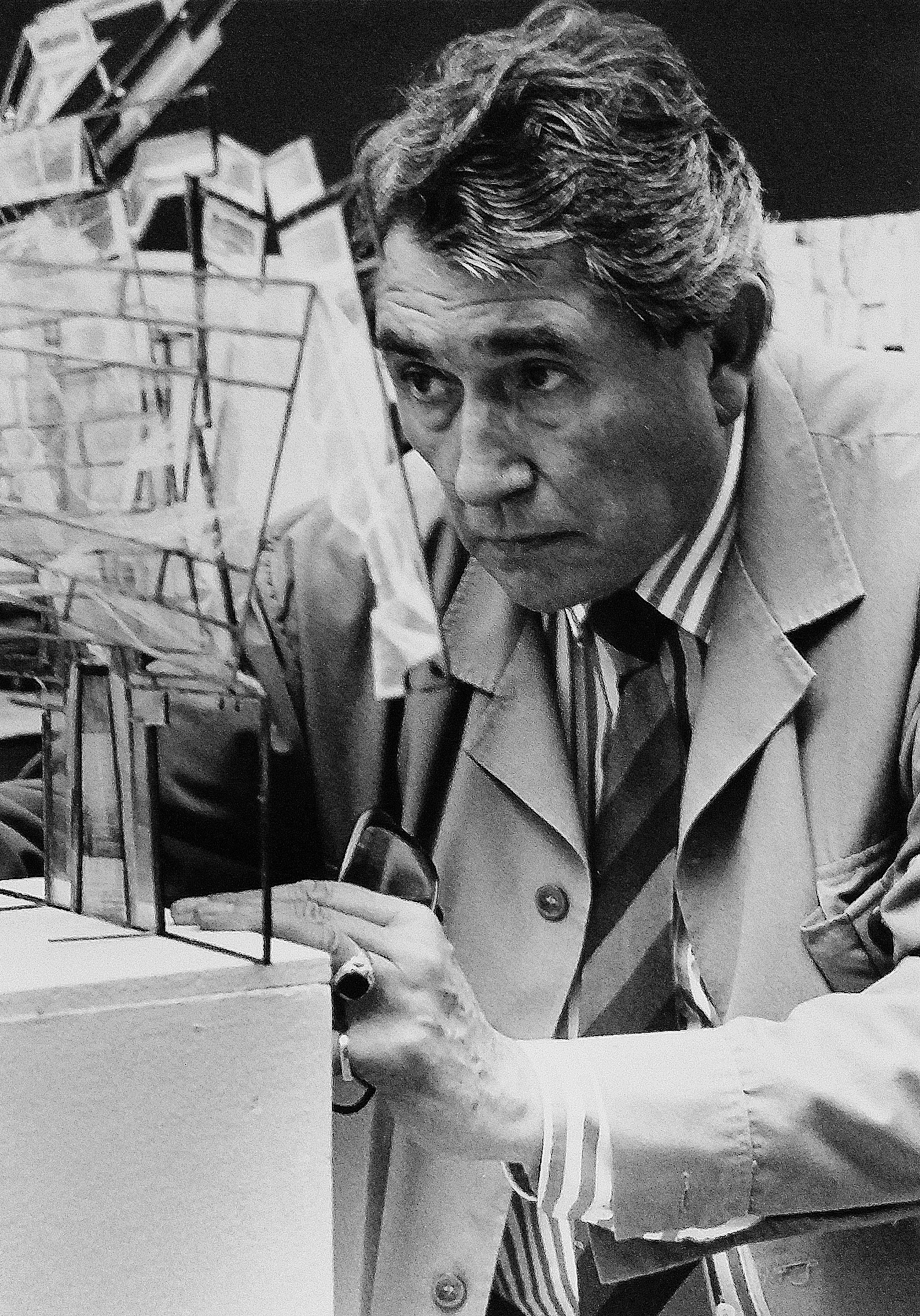 Prof. Schneider-Siemssen at work.